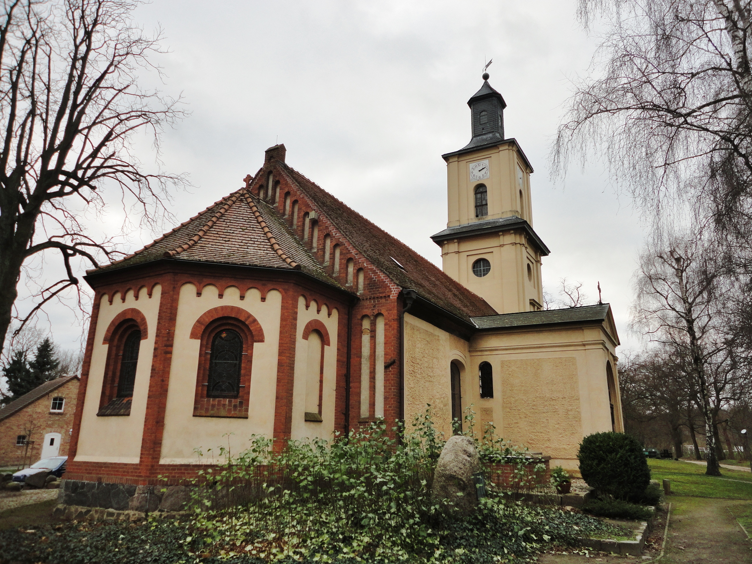 East-north-eastern view of church in Wustrau, Fehrbellin municipality, Ostprignitz-Ruppin district, Brandenburg state, Germany.